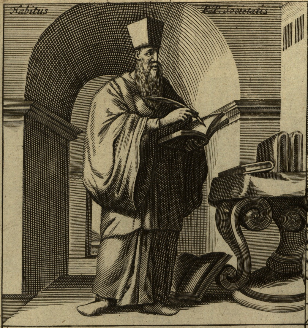 Michał Boym, woodcut